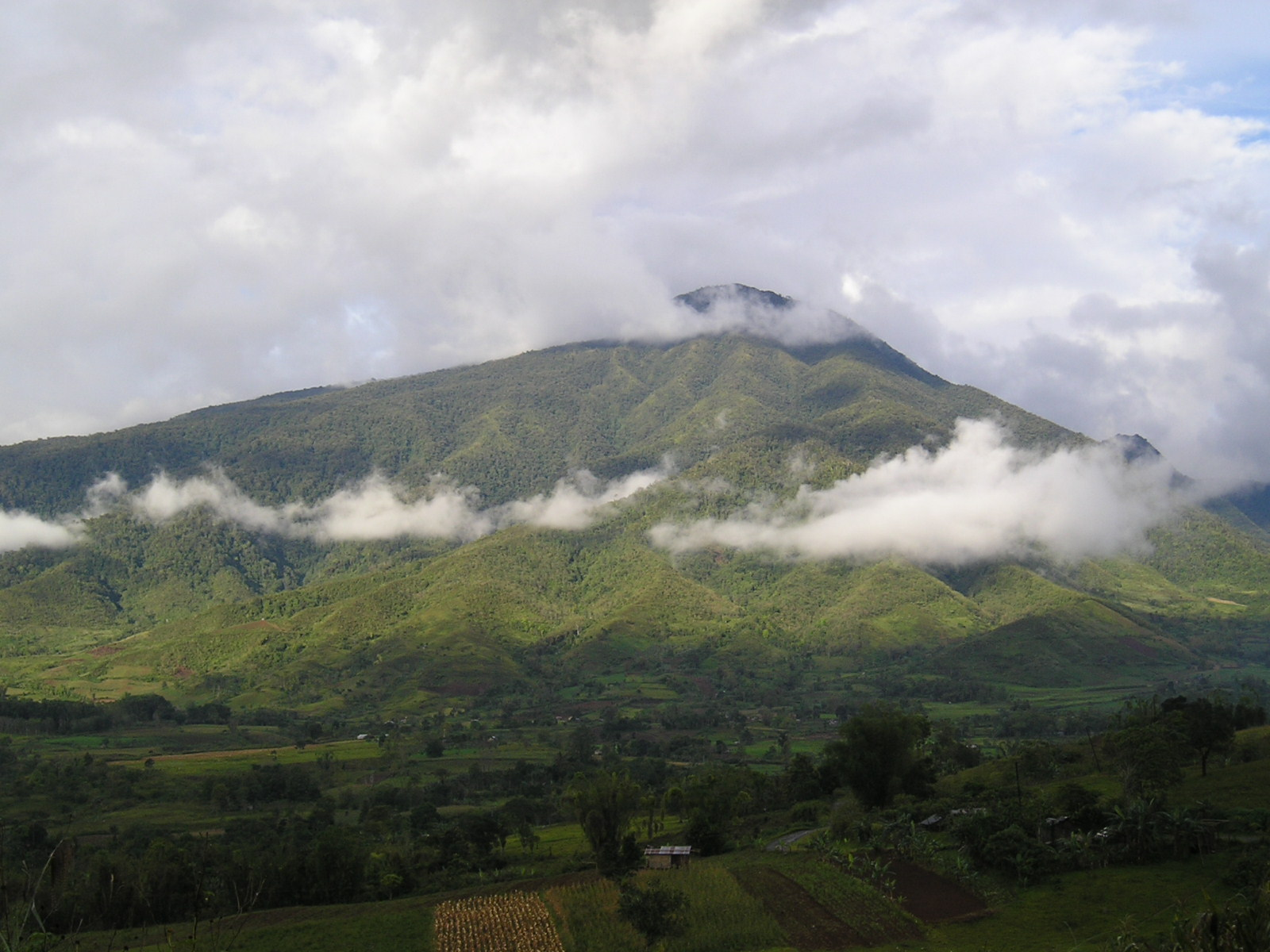 Mount Sumagaya in Claveria, Misamis Oriental, the crash site of Cebu Pacific Flight 387 on February 2, 1998, the worst aviation incident in the Philippines at that time.